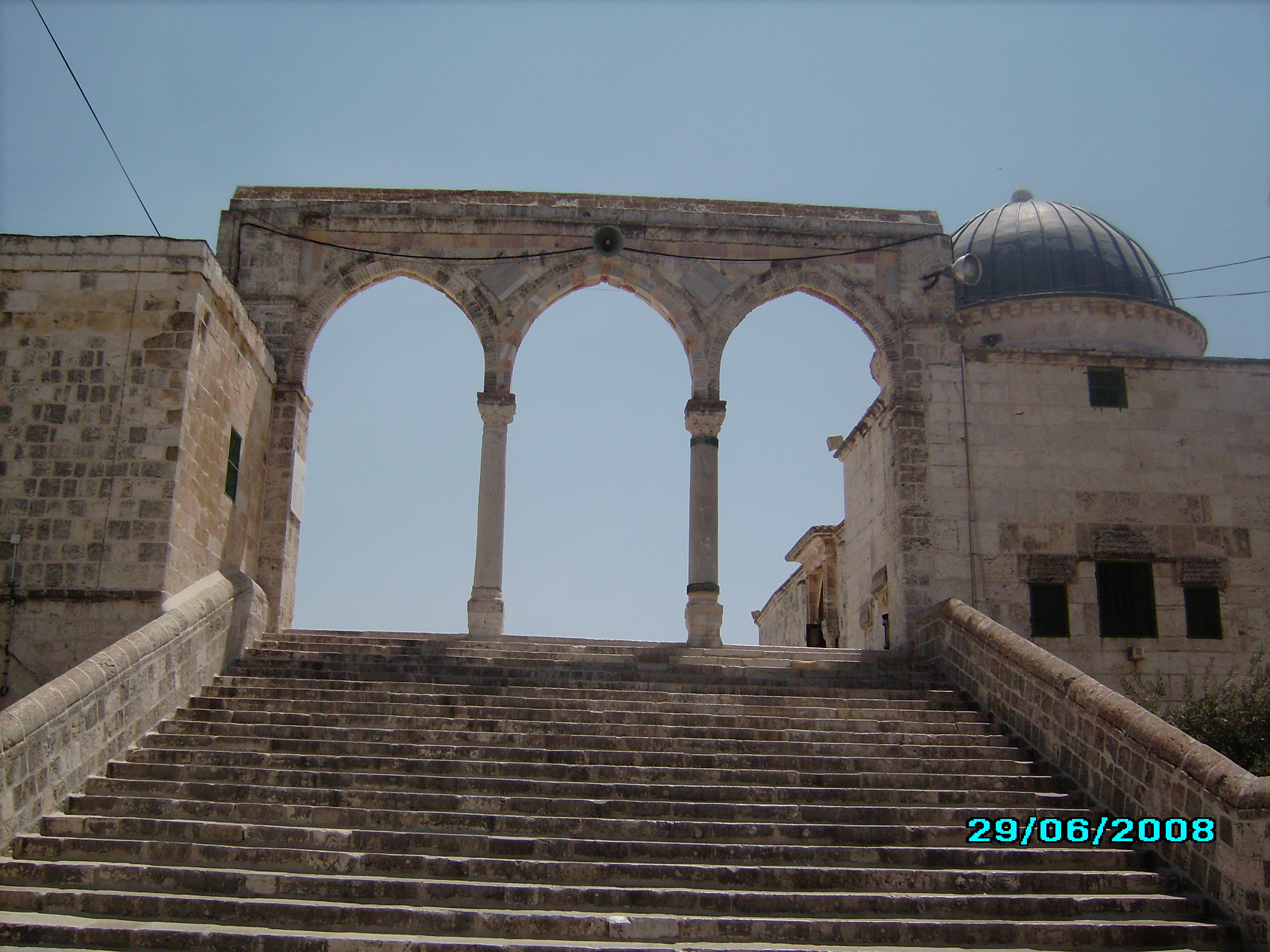 Al-Aqsa Mosque